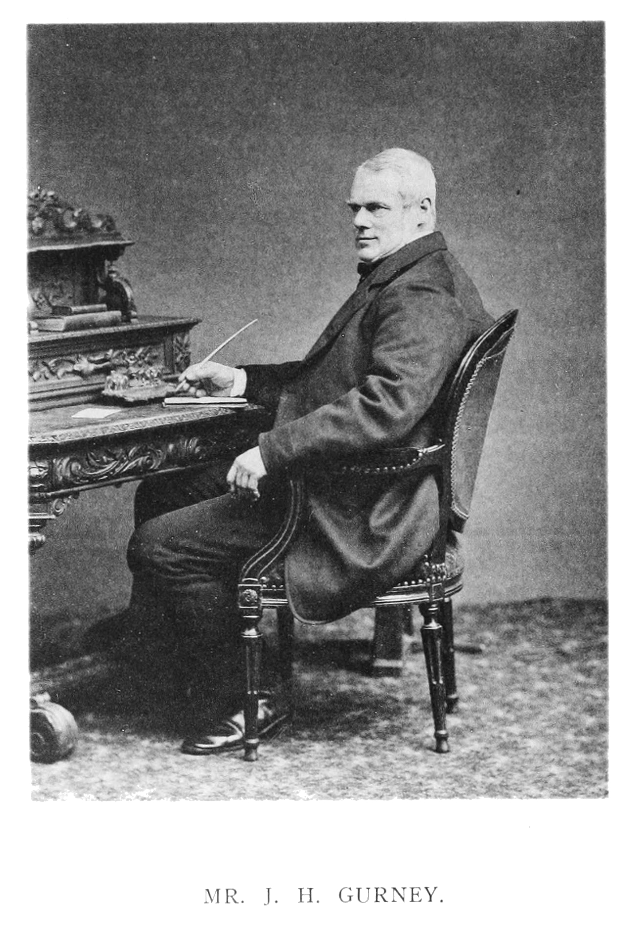 John Henry Gurney (4 July 1819 – 20 April 1890)